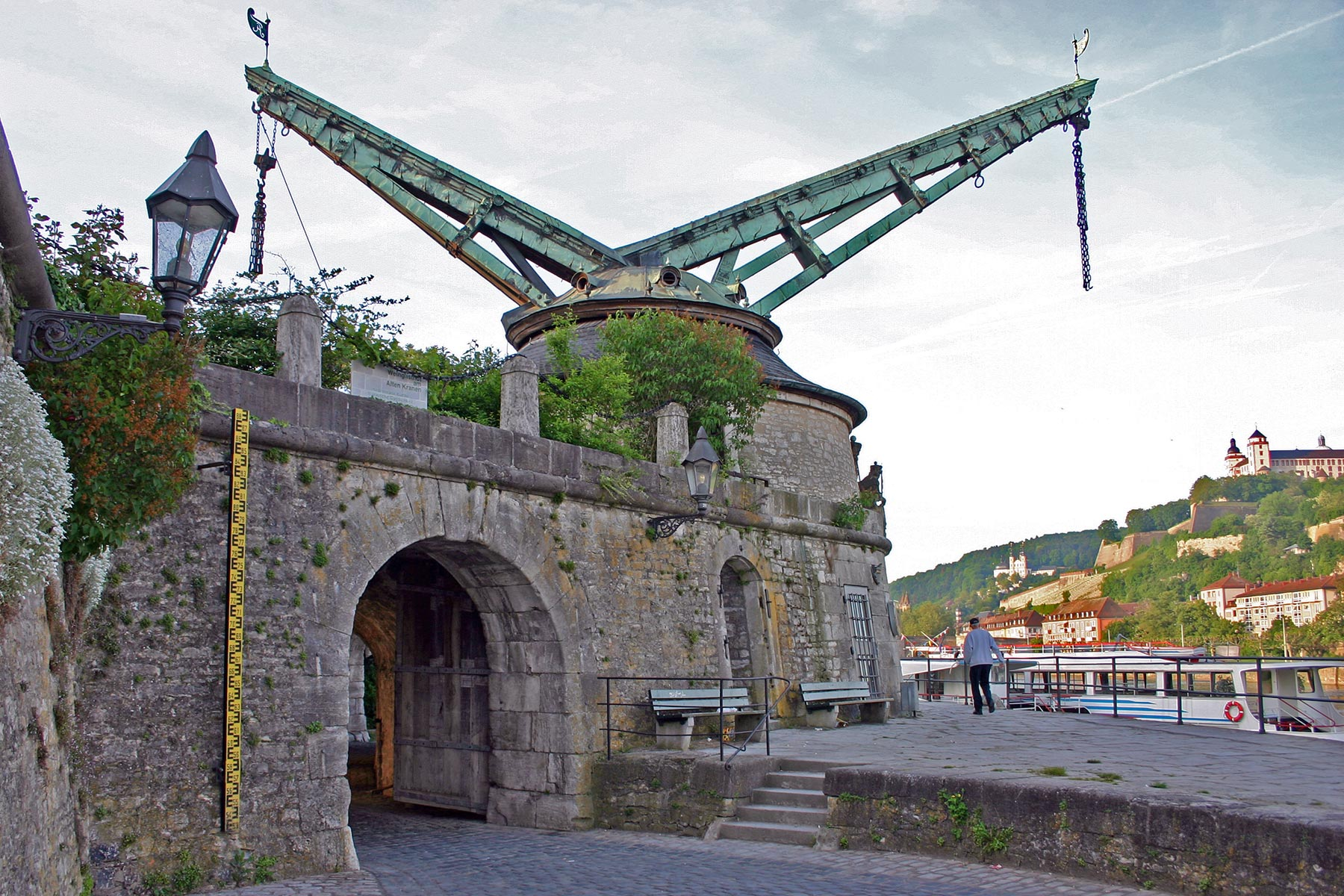 the "old crane" - historical harbour cranes in germany